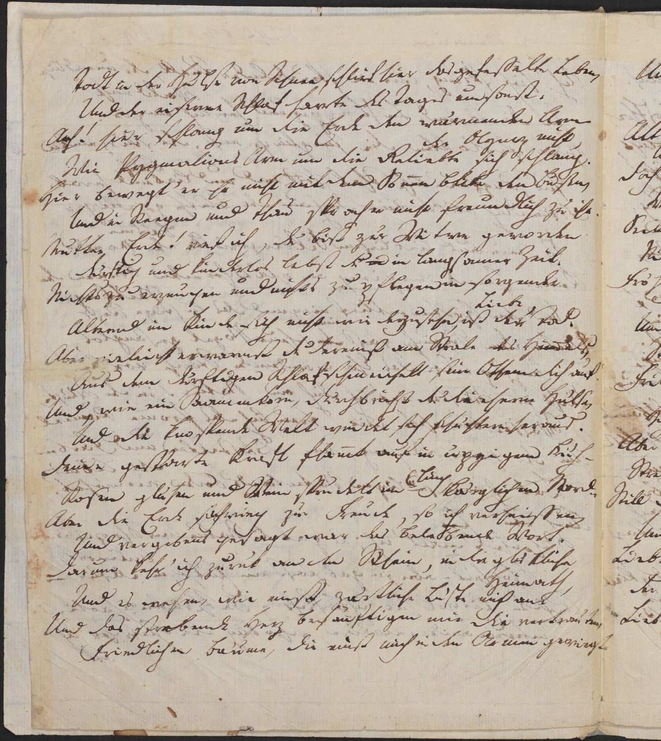 Manuscript by Friedrich Hölderlin "Der Wanderer", page 3